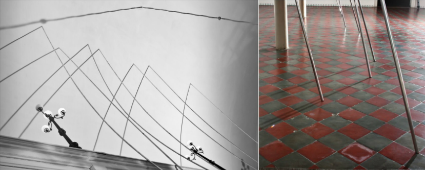 LINIE, Pavla Kačírková, hliník, 12 m, tyče vzepřené mezi stropem a podlahou, instalace pro synagogu v Hranicích na Moravě. Dotknutí se nedotkuntelného. / foto Taka Tuka